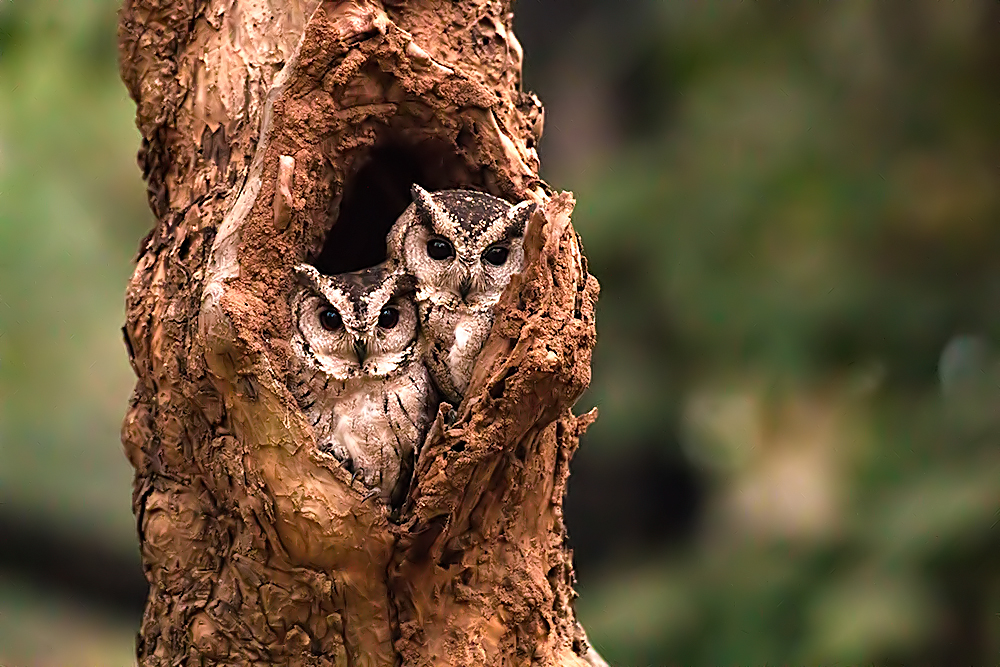 We found this pair on an early morning drive when the light was still very poor for any action photography.. I was continuously checking my shots with the lighting at various ISO combinations and was not happy with the shutter speeds I was getting when our guide pointed out to this adorable couple. Thankfully, they don't seem to be the likes that love too much action either, and I was able to get a decent hand-held shot with the Canon 100-400mm IS2.